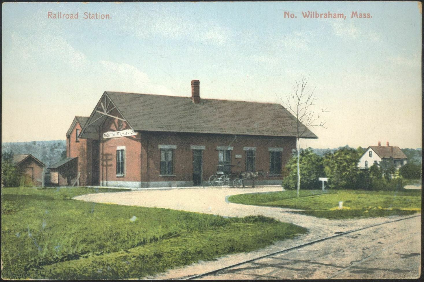 Divided-back postcard of North Wilbraham station